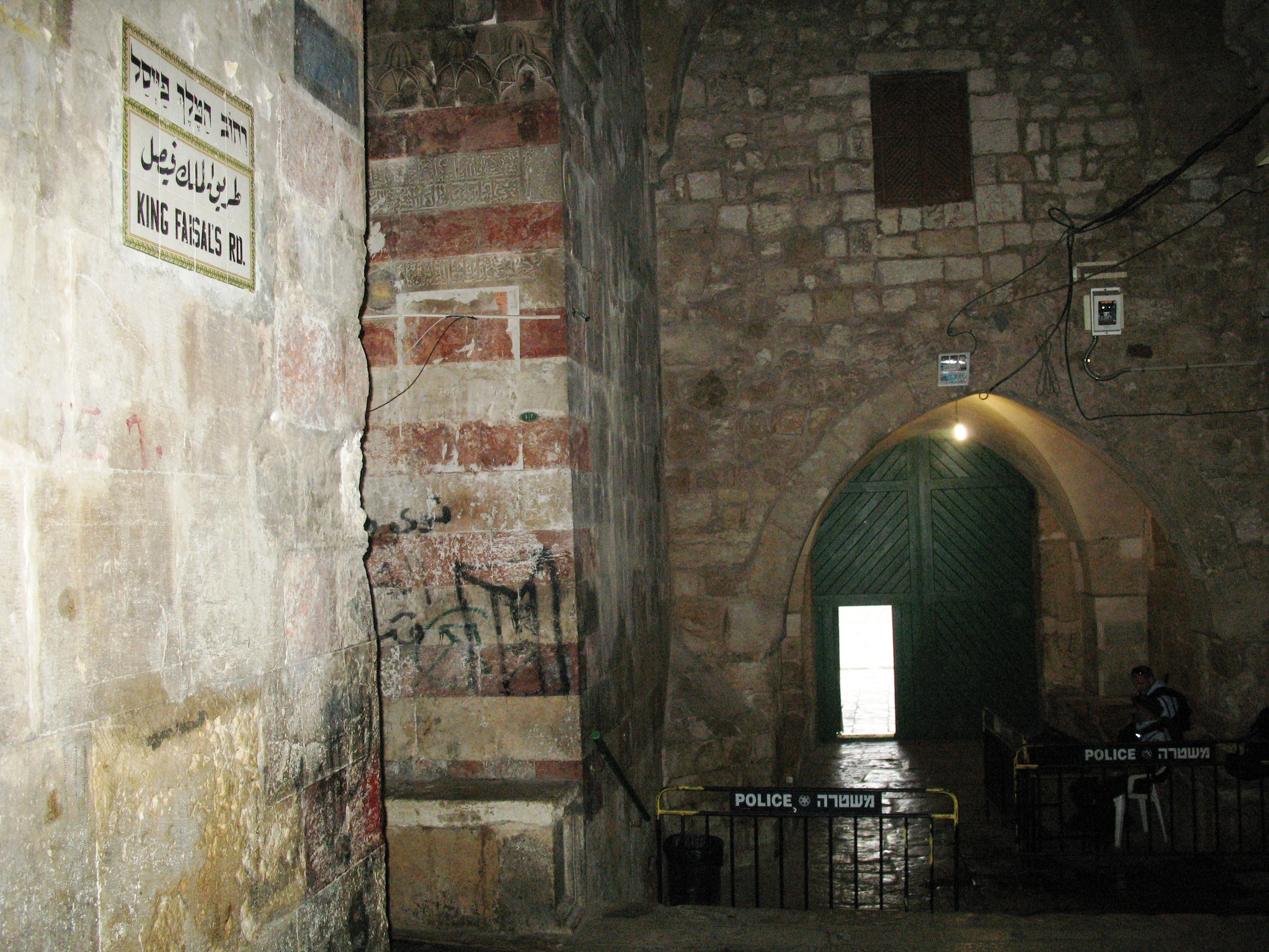 Gates of old city of Jerusalem - Palestine